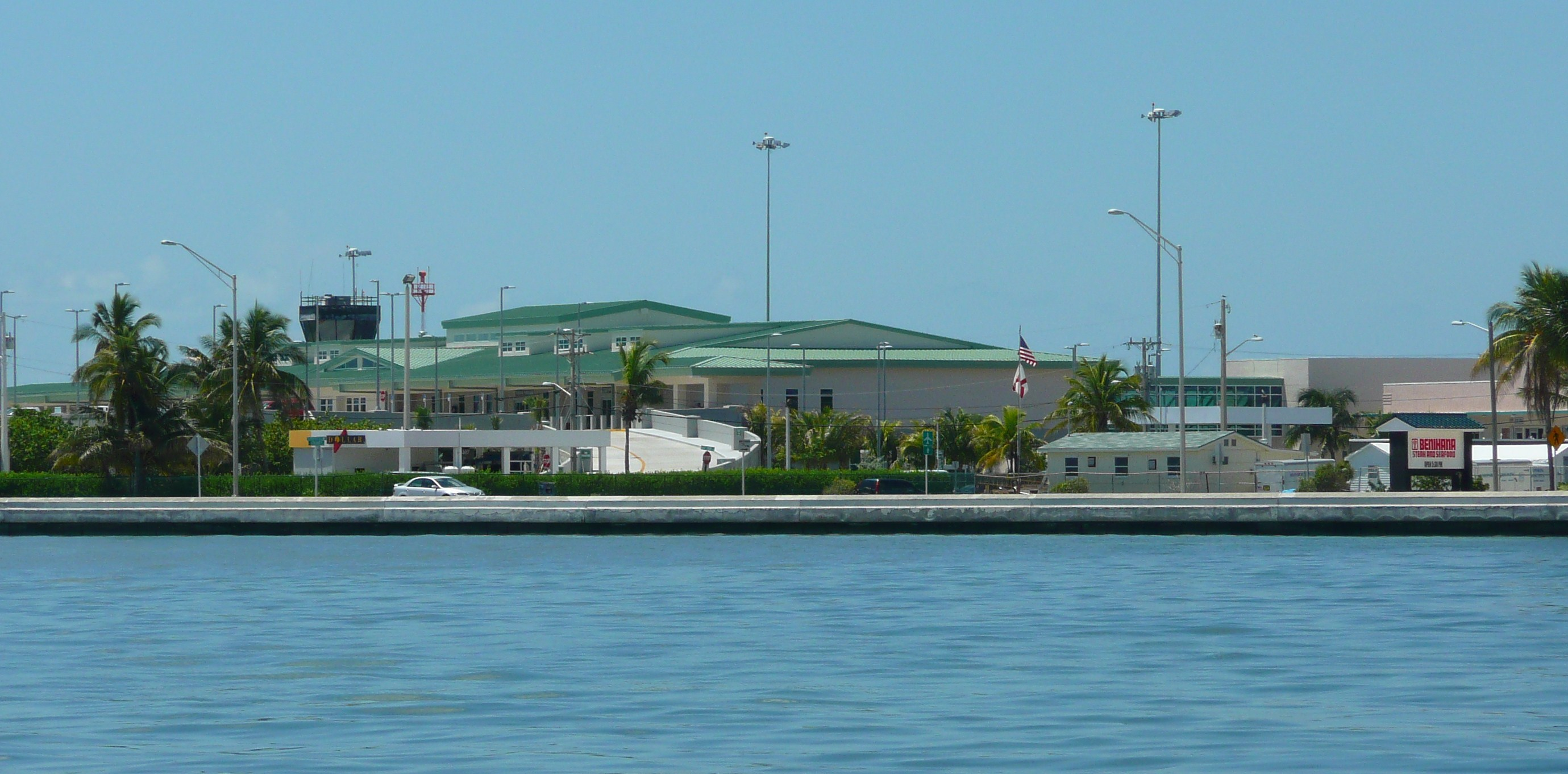 Digital photo taken by Marc Averette. Key West International Airport in Key West, Florida.